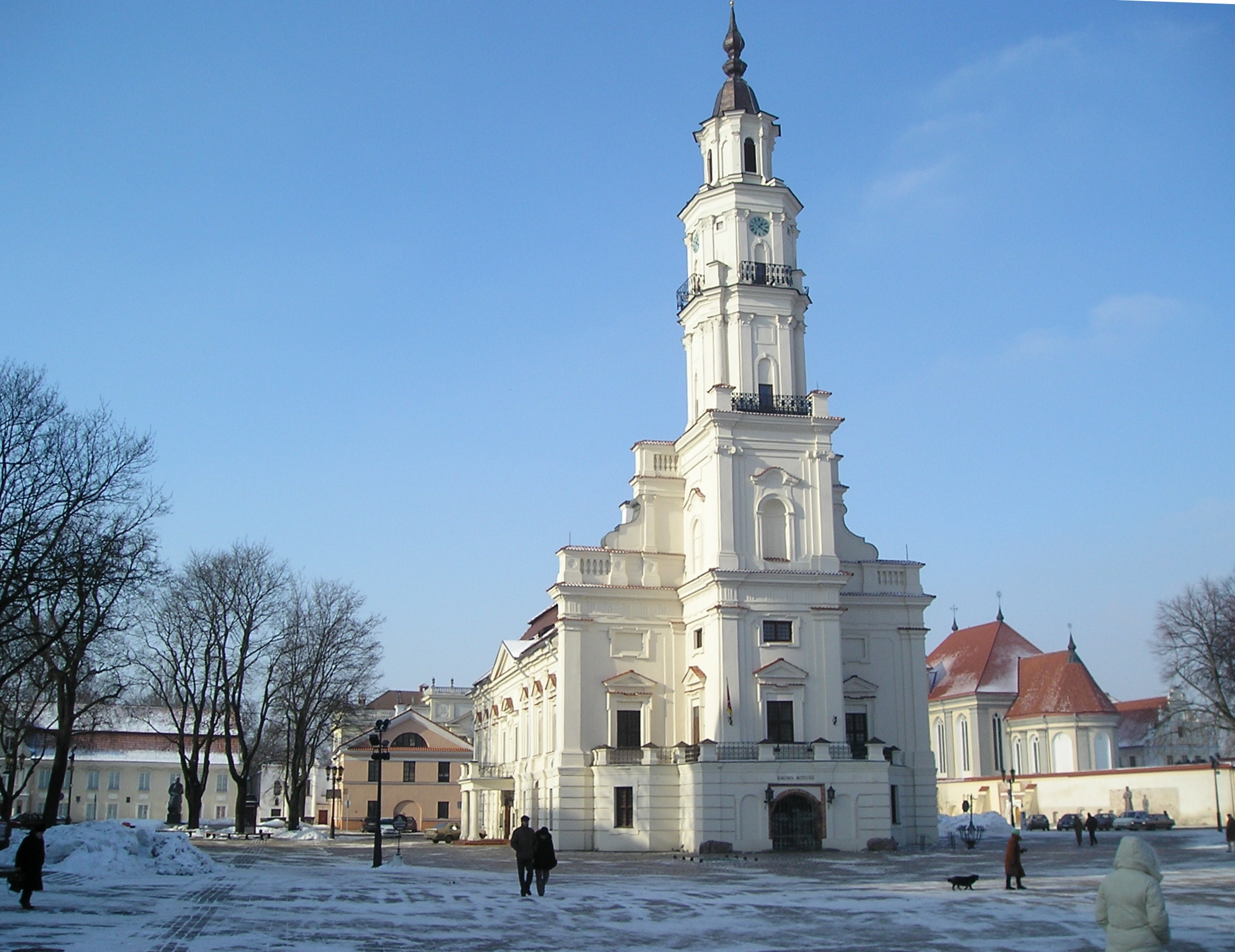 Kaunas City Hall, Lithuania.